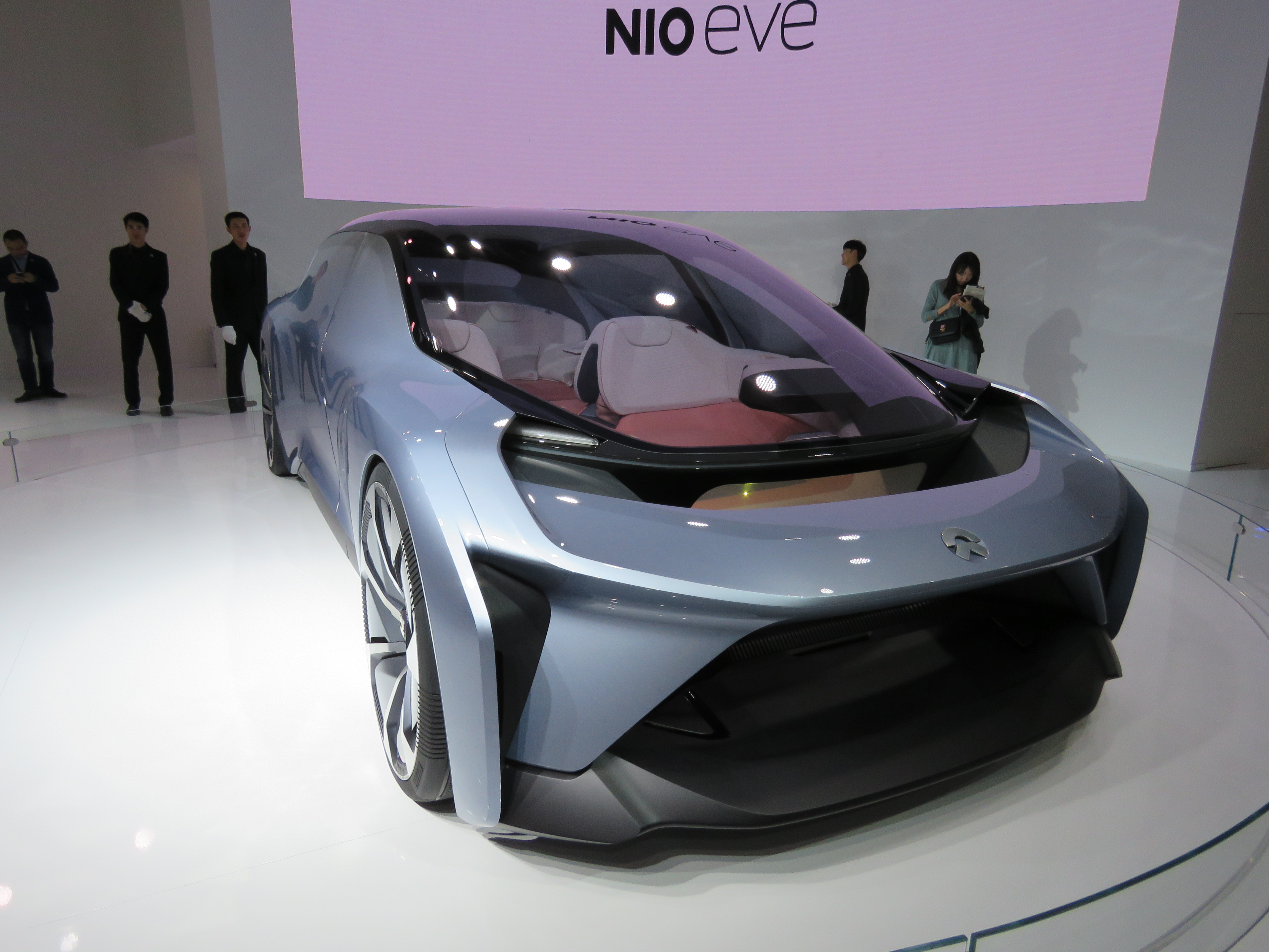 NIO Eve concept